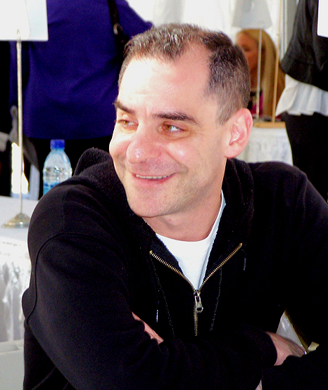 David Rakoff at the 2006 Texas Book Festival, Austin, Texas, United States.